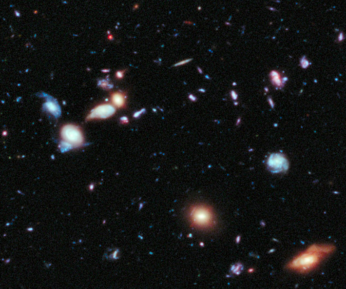 A cropped derivative off File:Constellation Fornax, EXtreme Deep Field.jpg, edited to work as a tiled background.